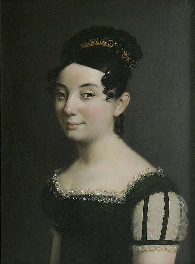 Victoria Martín de Campo. Óleo sobre lienzo. 63 x 46 cm. Procedencia Colección de la autora.